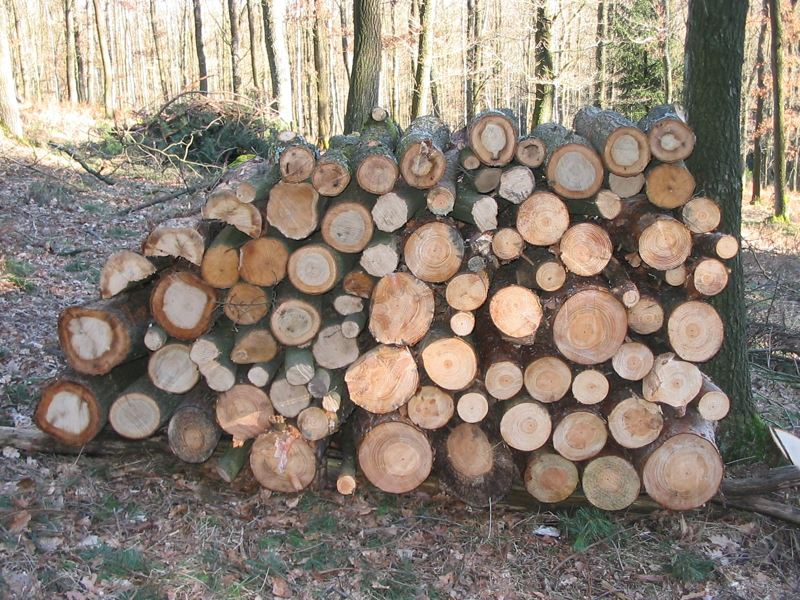 A wooden stack in a „Hauberg“ in Salchendorf, Neunkirchen (Germany).